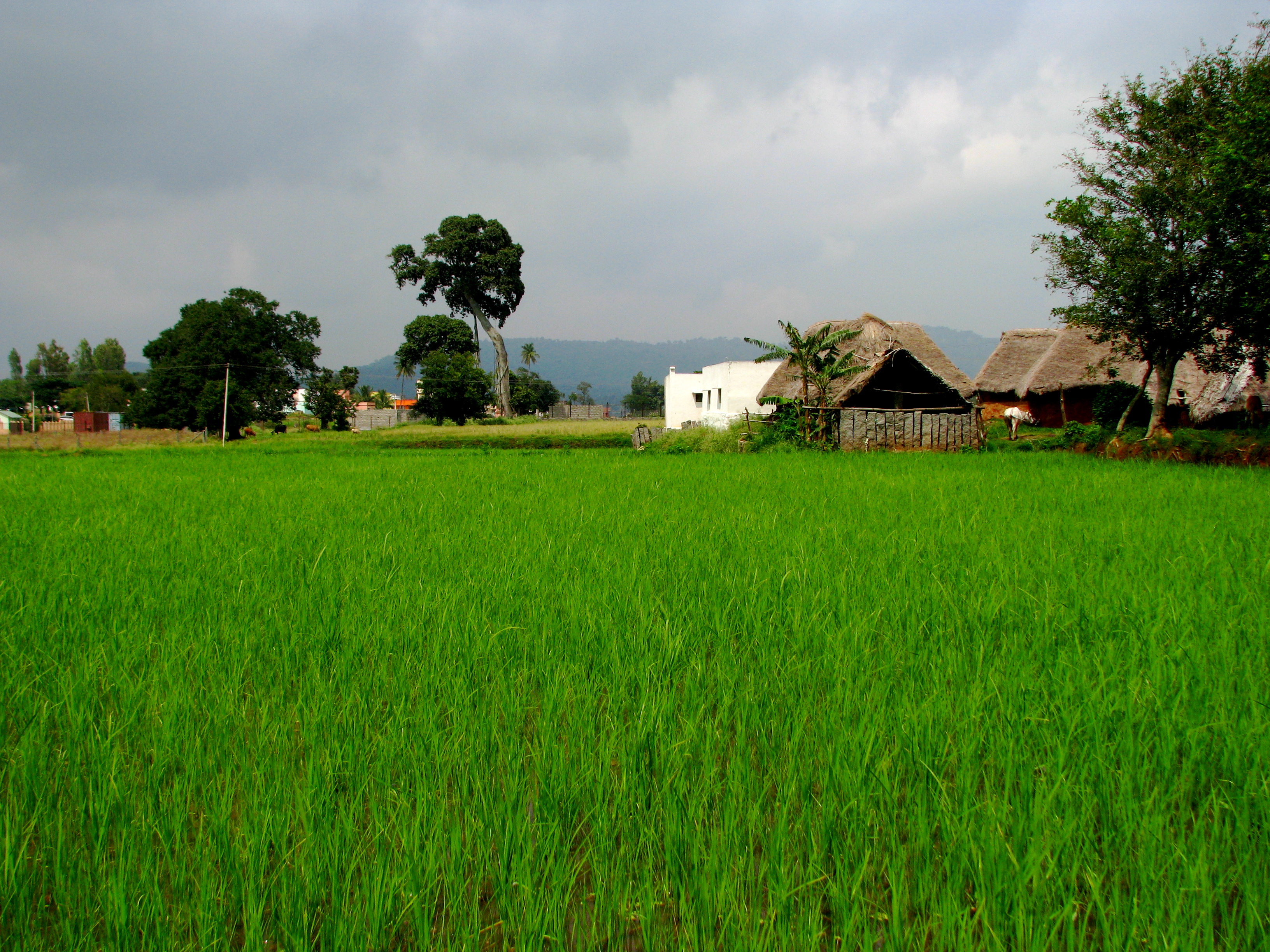 Bright green paddy fields of Yelagiri, Vellore district, Tamil Nadu.